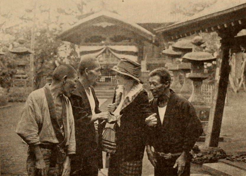 Still of Marie Walcamp meeting three Japanese gentlemen at a garden in Tokyo, Japan, during the production of the American film serial The Dragon's Net (1920), portions of which were filmed in Hawaii and in the Far East. On page 87 of the December 20, 1919 Exhibitors Herald.